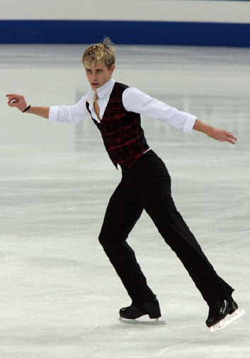 Michal BREZINA (CZE) at the 2009 European Figure Skating Championships